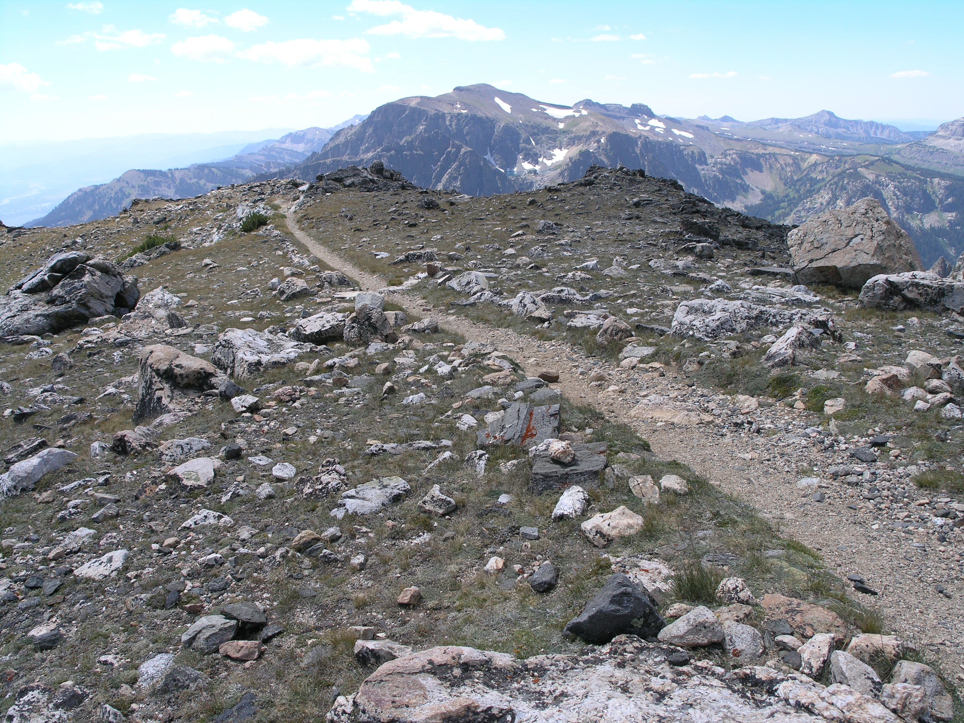 The trail leading over the Static Peak Divide in Grand Teton National Park, Wyoming, USA